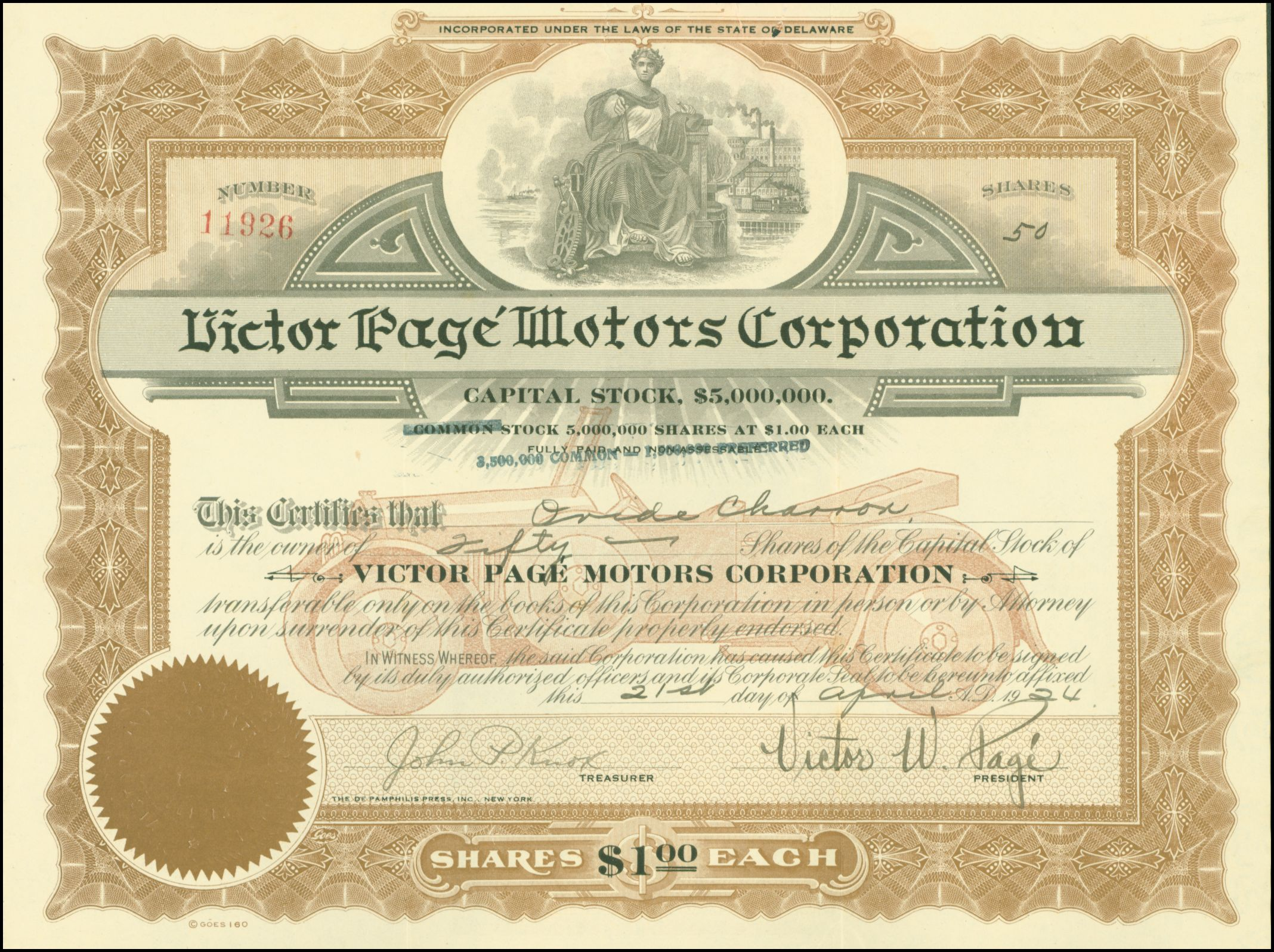 Share of the Victor Pagé Motors Corp., issued 21. April 1924